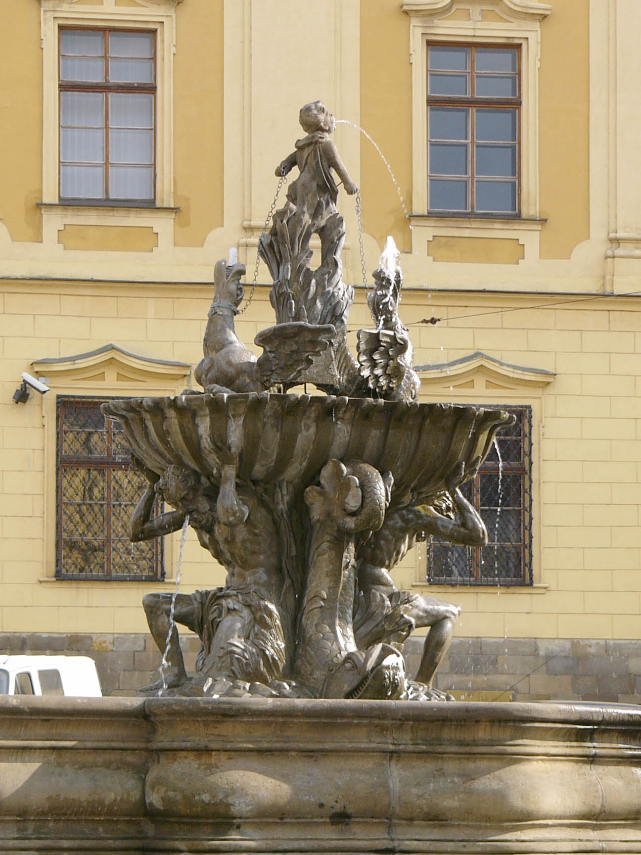 Fountain of Tritons in Olomouc (Czech Republic).